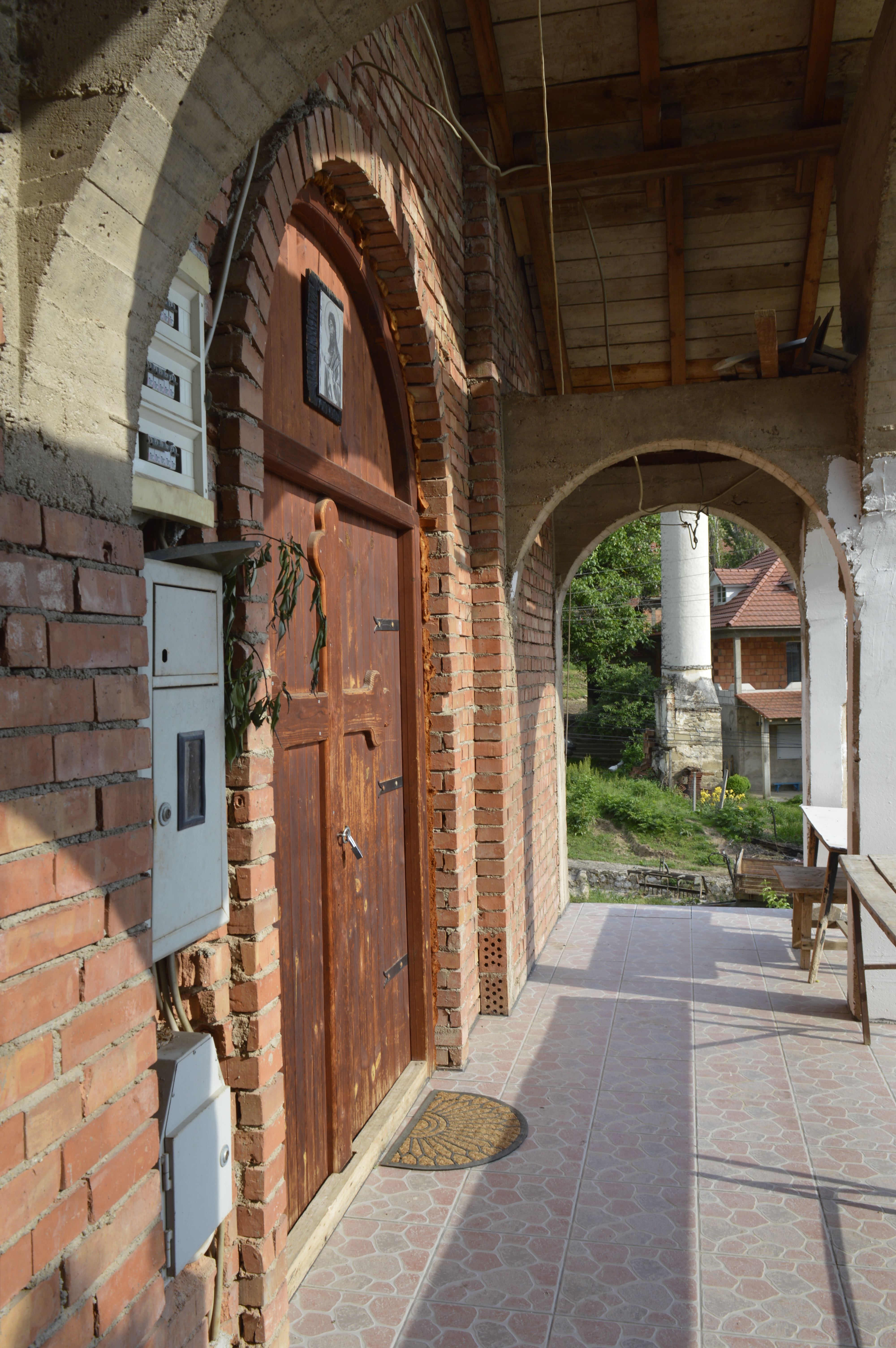 Entry in St. John the Baptist Church in the village Dzvegor